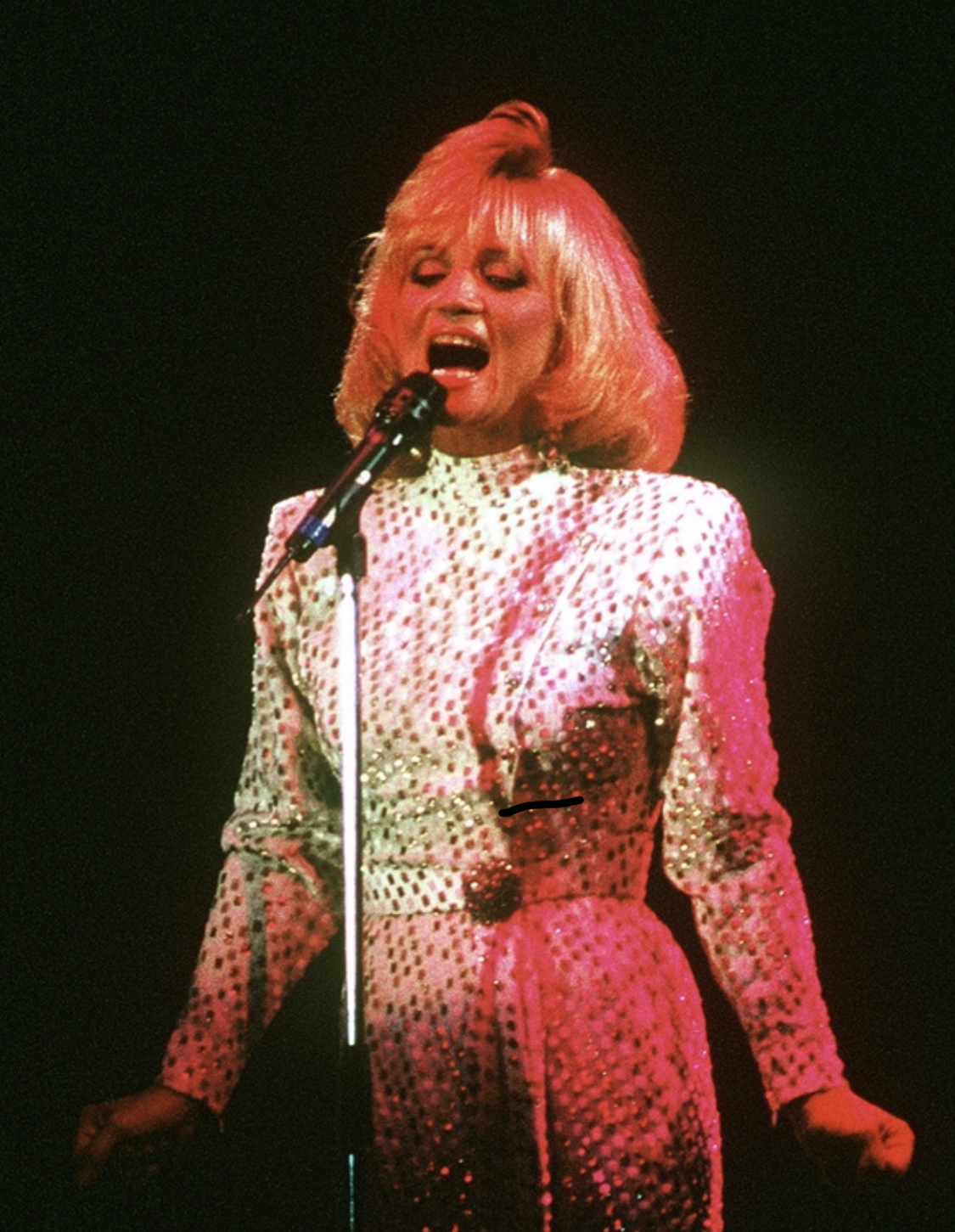 1991 image of U.S. Country Music singer and instrumentalist Barbara Mandrell performing at a U.S.O. show.